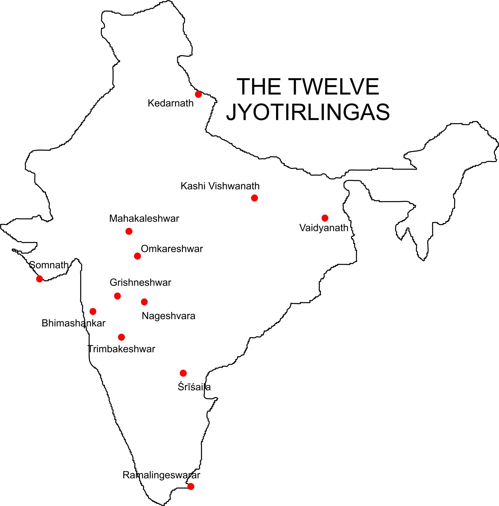 Map showing the location of each of the 12 Jyotirlinga temples in India: Kedarnath, Kashi Vishwanath, Vaidyanath, Mahakaleshwar, Omkareshwar, Somnath, Grishneshwar J (also Ghushmeshwar), Nageshvara, Bhimashankar, Trimbakeshwar, Mallikārjuna or Śrīśaila, and Ramalingeswarar.